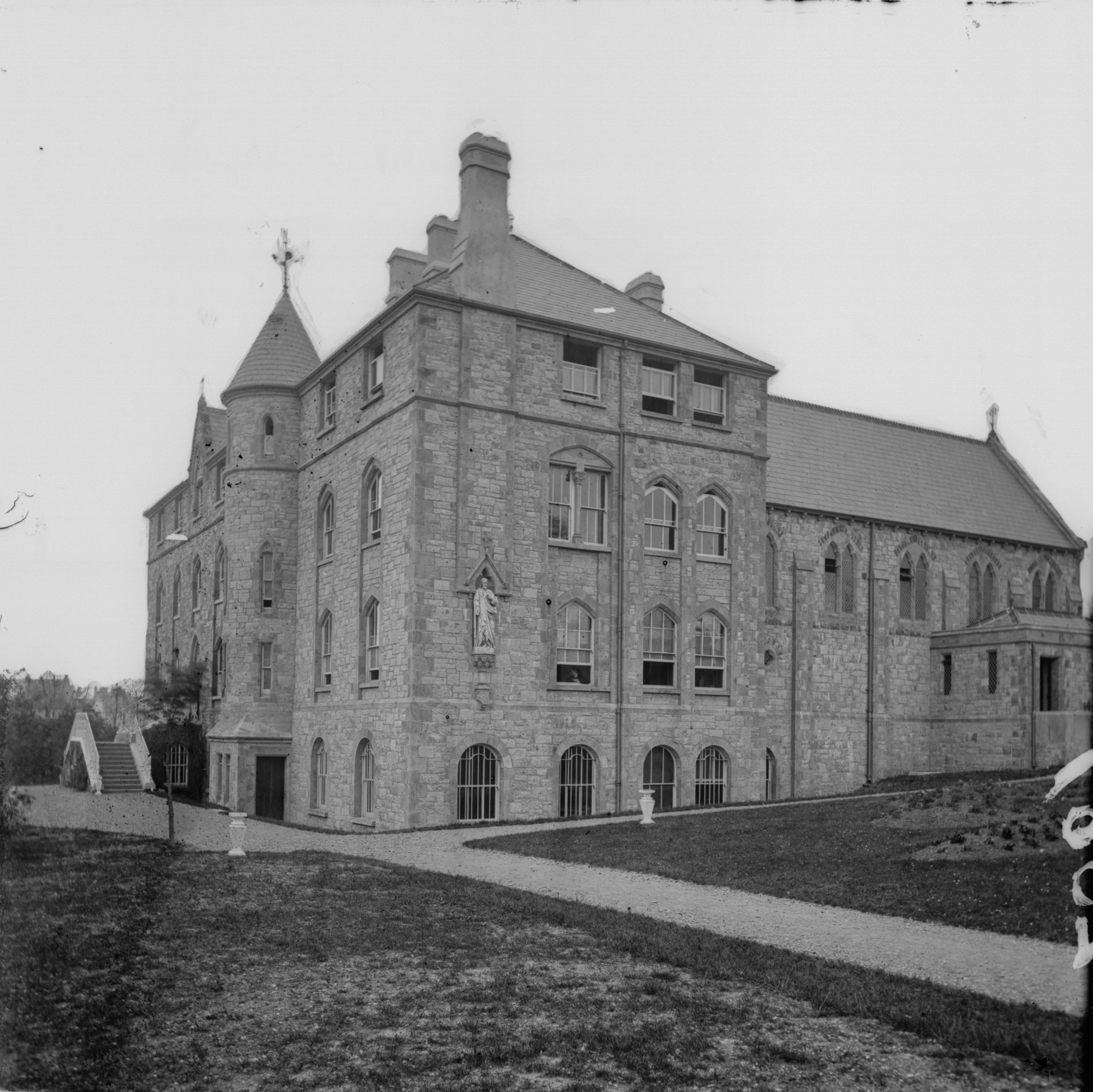 Institutional, four-storey building. Location Identified!! by [/photos/91549360@N03/ OwenMacC] as "Omagh Convent. The Loreto Convent constructed in 1859 by Dublin builder, J. Neville The Chapel has some fine stained glass by Mayer of Munich" Photographers: Frederick Holland Mares, James Simonton Contributor: John Fortune Lawrence Collection: The Stereo Pairs Photograph Collection Date: between ca. 1860-1883 NLI Ref: STP_2387 You can also view this image, and many thousands of others, on the NLI’s catalogue at